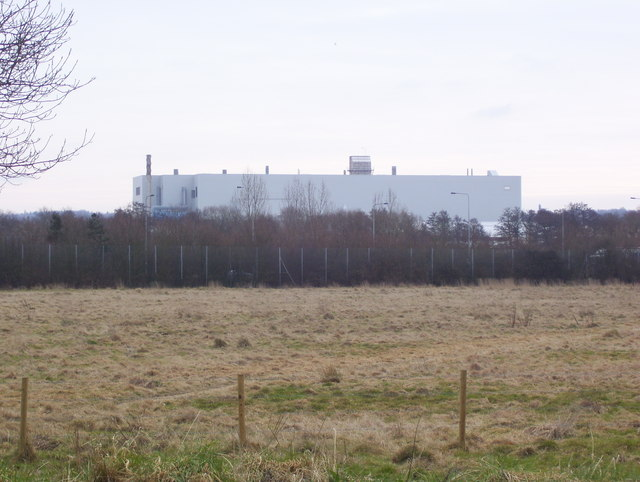 Ford Motor Company Southampton Assembly Plant Around 1100 people are employed at the factory which constructs the Ford Transit van